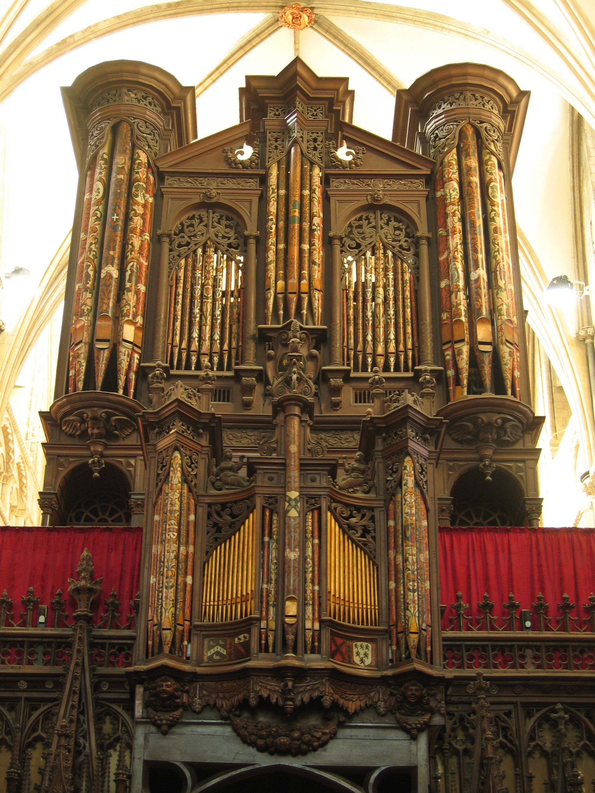 Henry Willis rebuild of organ in Gloucester Cathedral (1847), England.